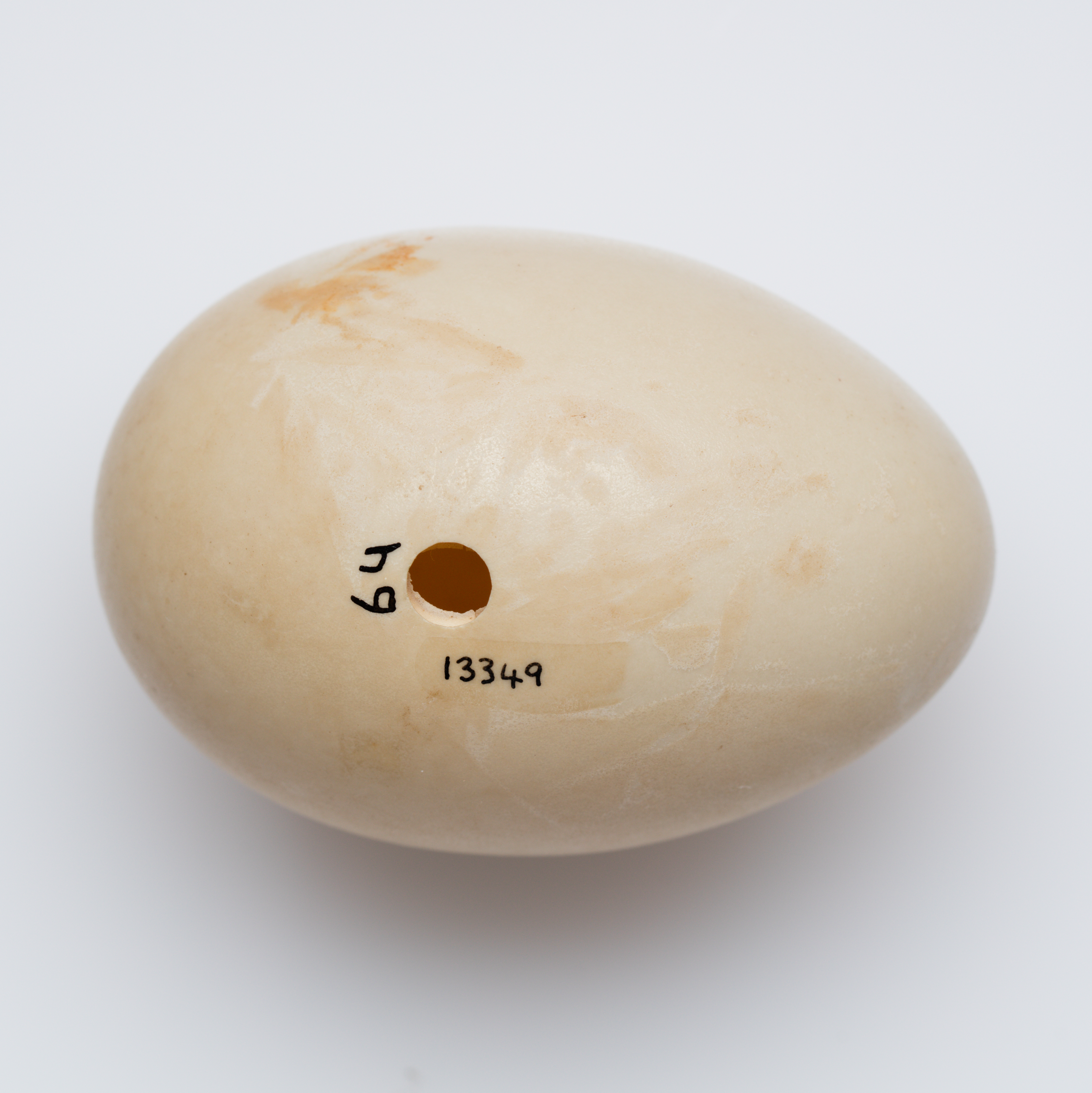 Egg from New Zealand Scaup, Aythya novaeseelandiae, in the collection of Auckland Museum (AM LB1334)